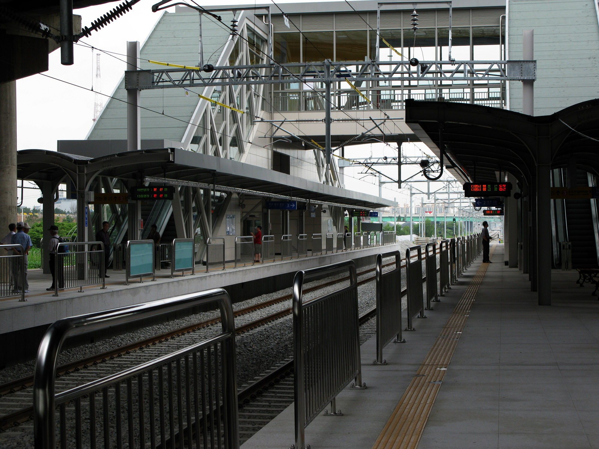 Gyeongui Line Daegok Station